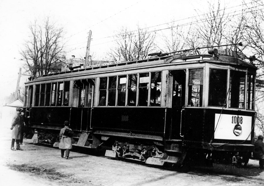 View of the Belgian Pullman wagons, built by Usines Ragheno and later modernized on the Kiev tram factory (KZET), used throughout the 1930s.